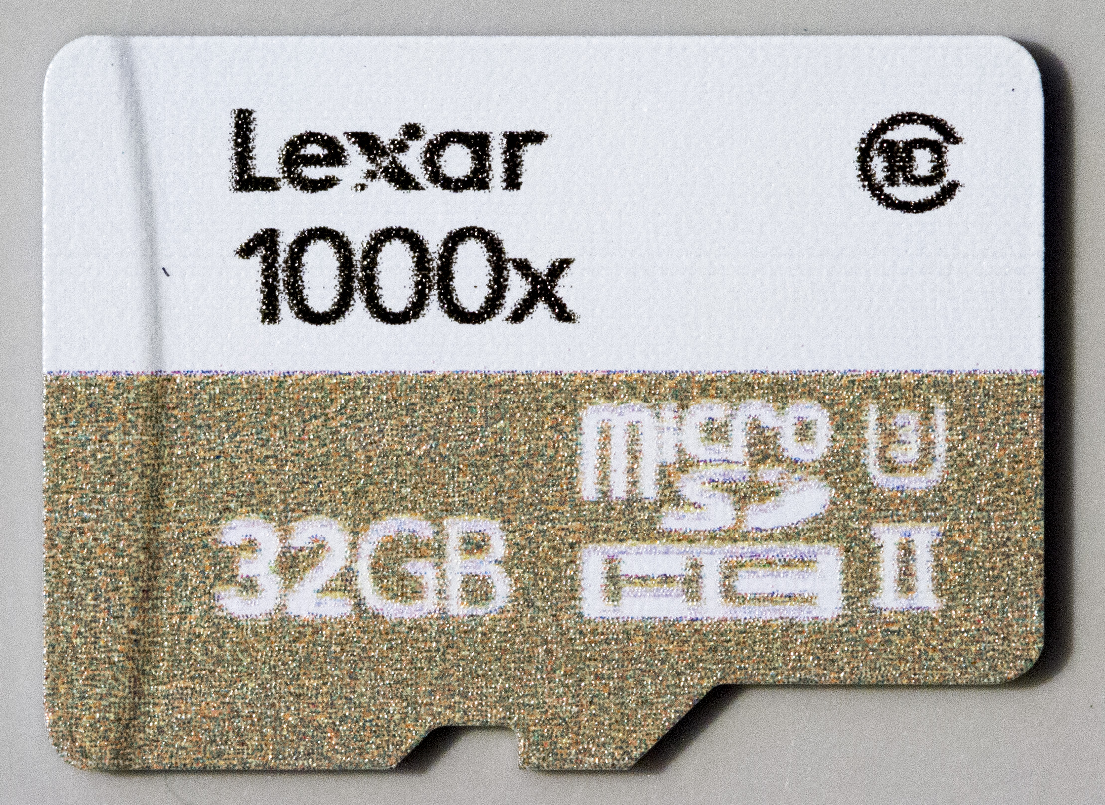 Front side of an Lexar 1000x MicroSDHC UHS-II U3 Class 10